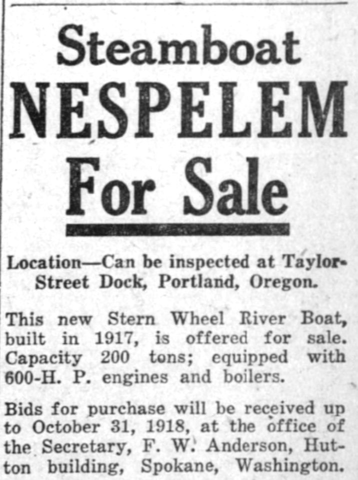 Advertisement for the sale of the steamboat Nespelem